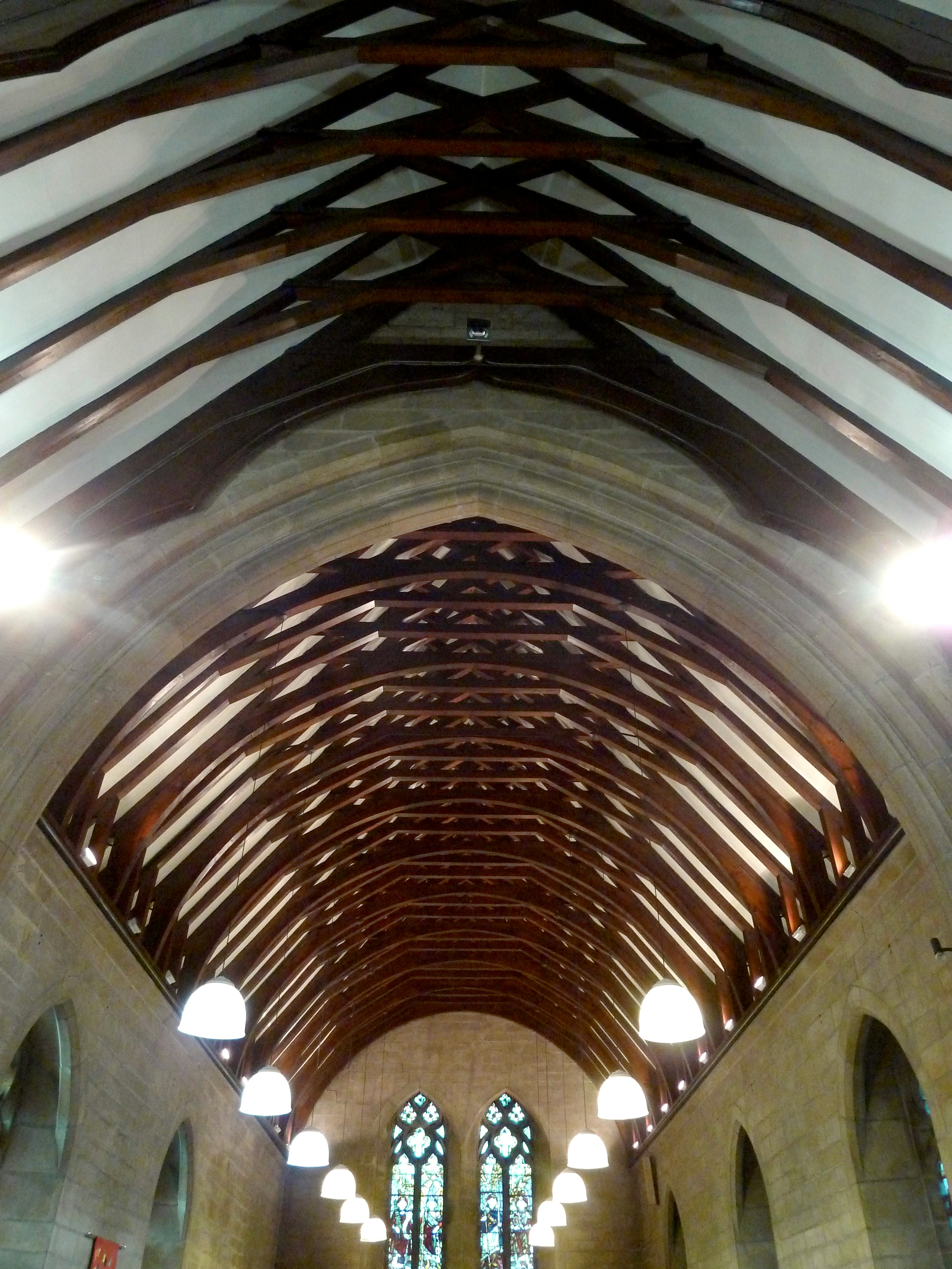 St Michael and All Angels Church, Beckwithshaw, North Yorkshire, England. Chancel and nave ceilings, looking west from chancel.